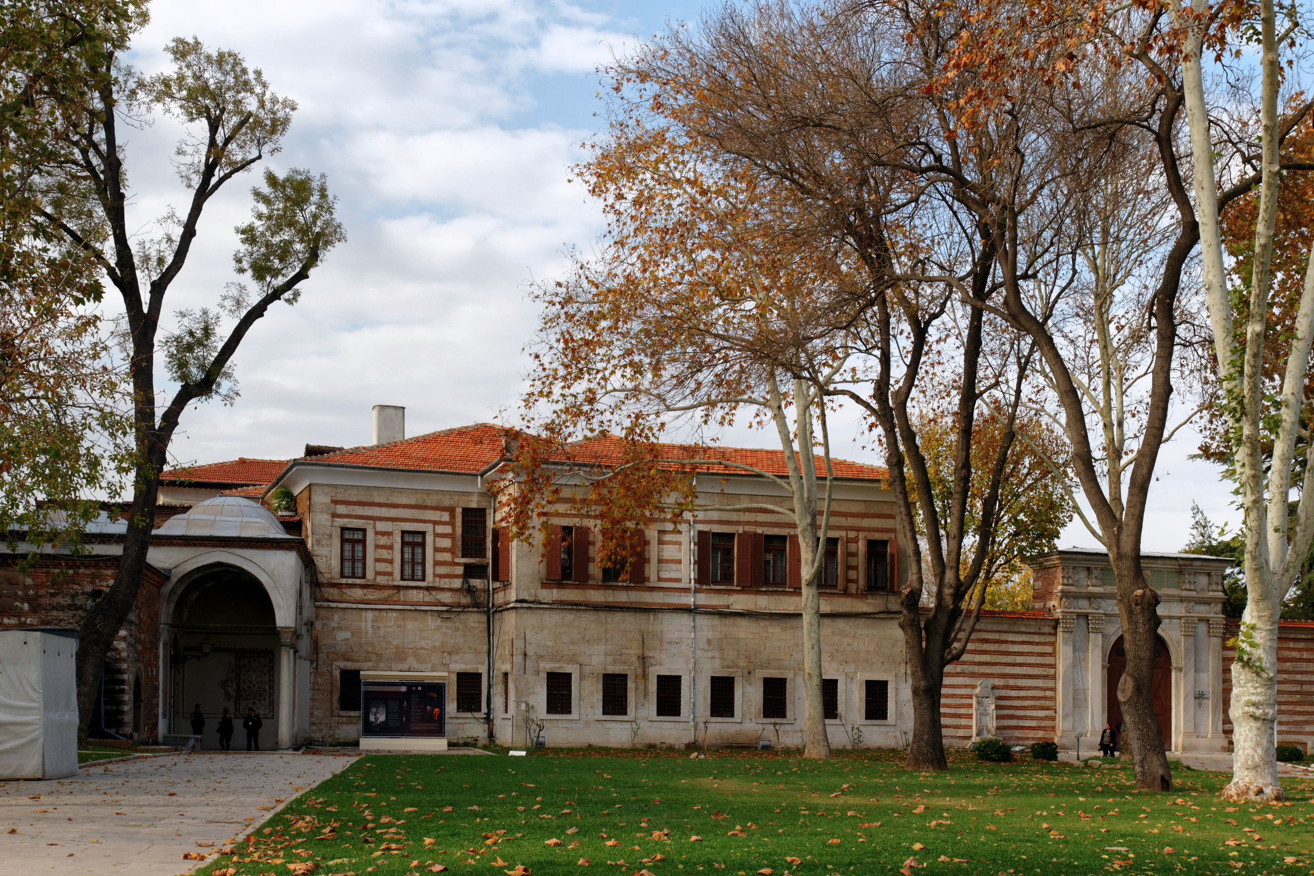 Istanbul. Topkapı Palace. Royal Mint of Ottoman Empire